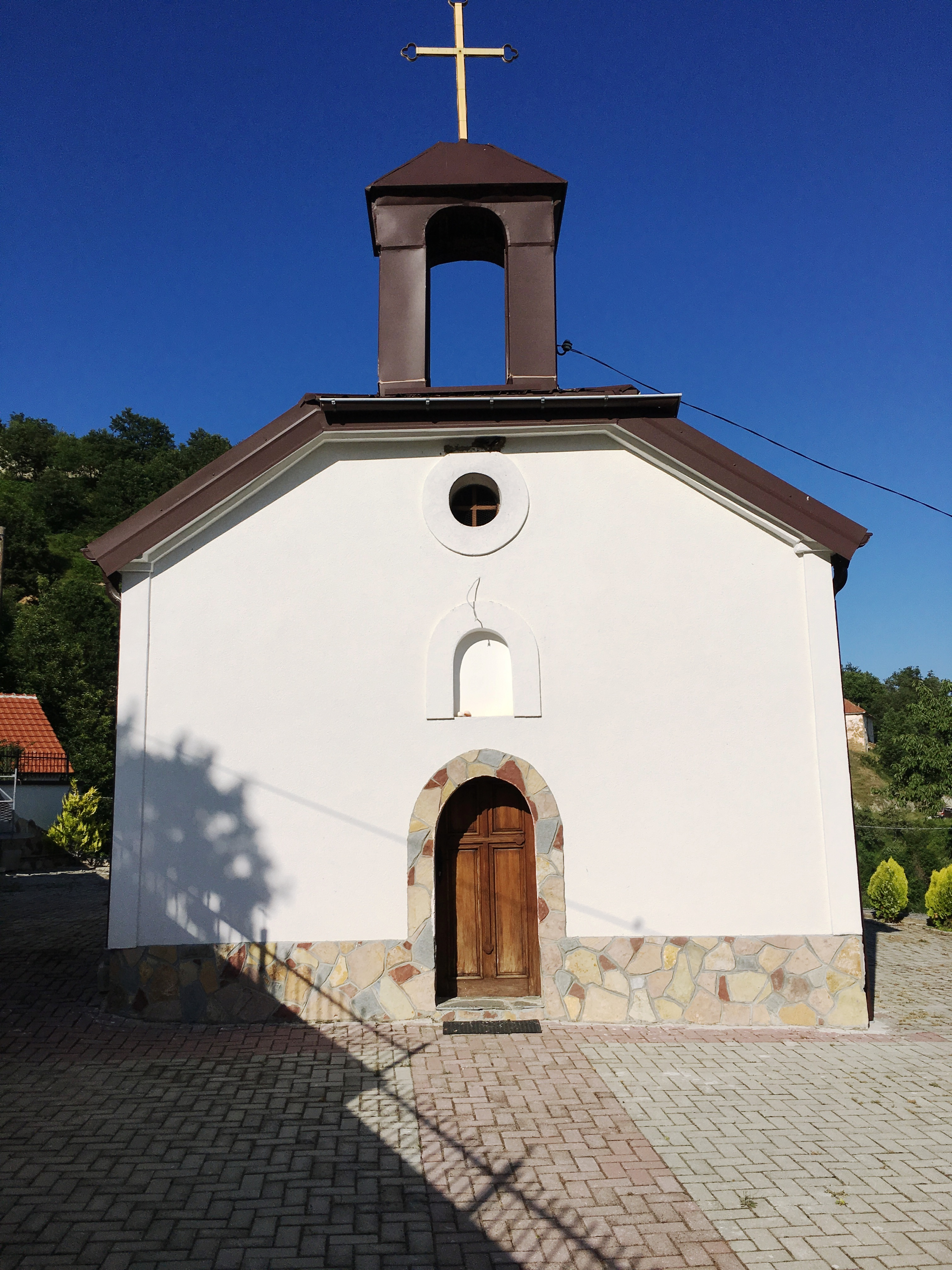 The front side of the St. Nicholas Church in the village of Bitovo